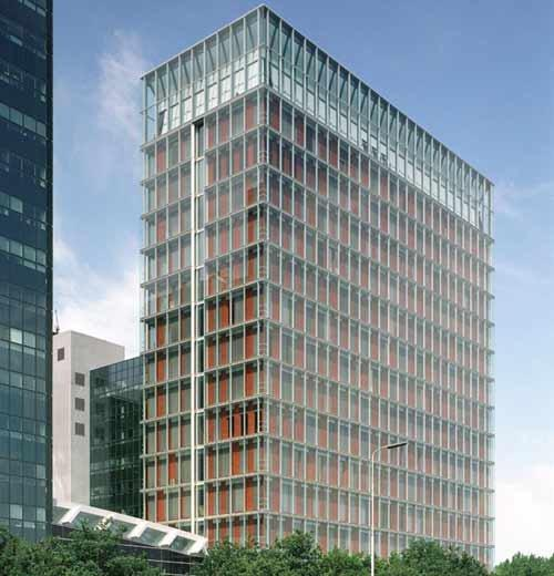 The Amsterdam World Trade Center